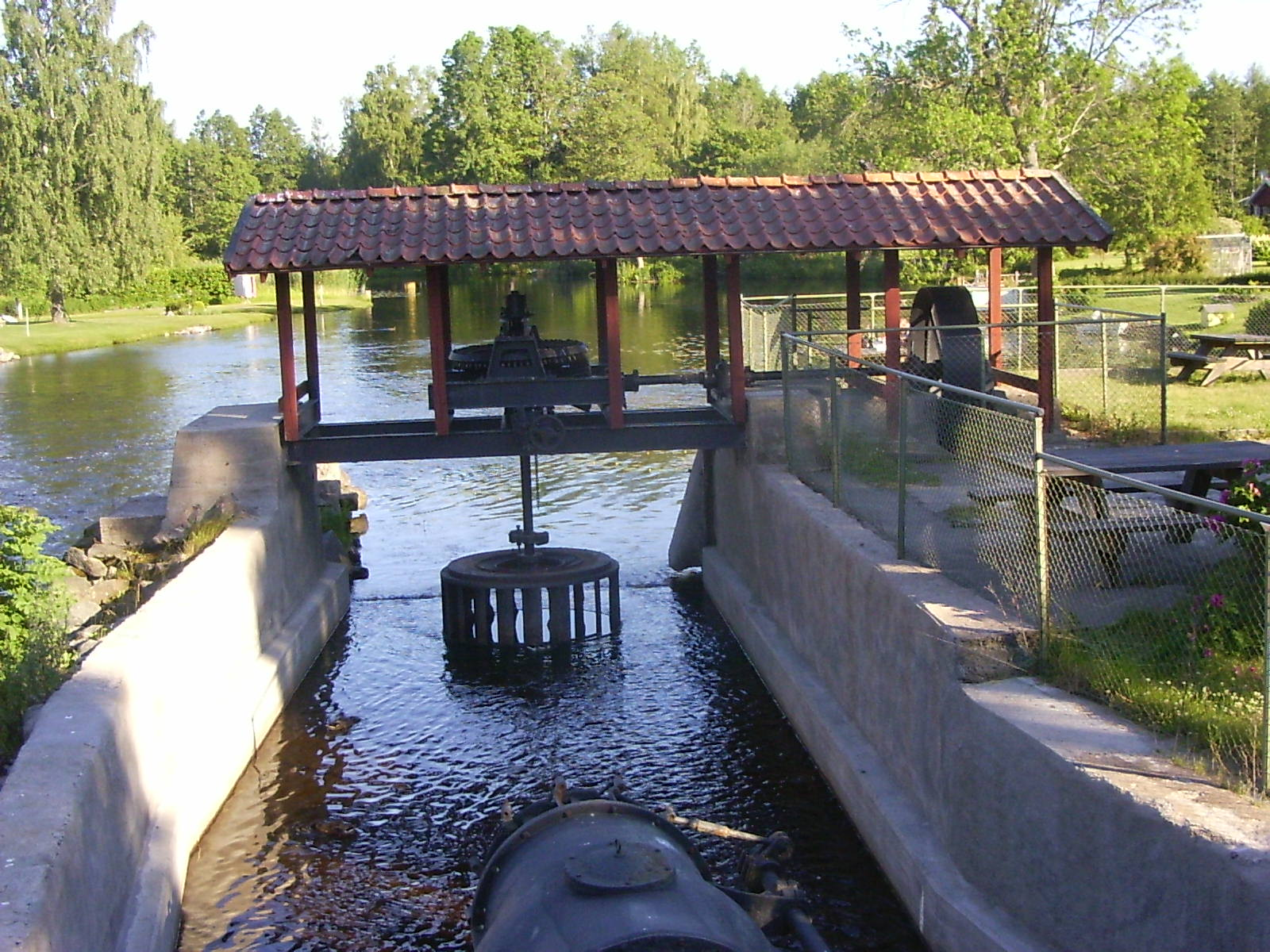 Djulö Kvarn